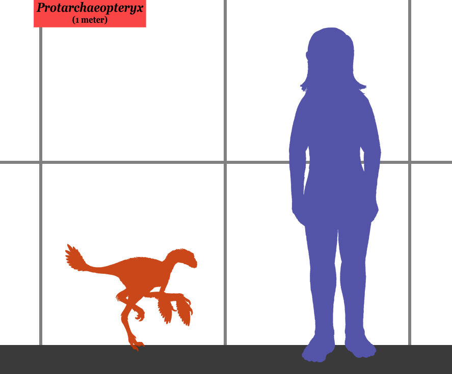 Size comparison between the extinct oviraptorosaurian dinosaur (or possibly flightless bird) Protarchaeopteryx and a human.